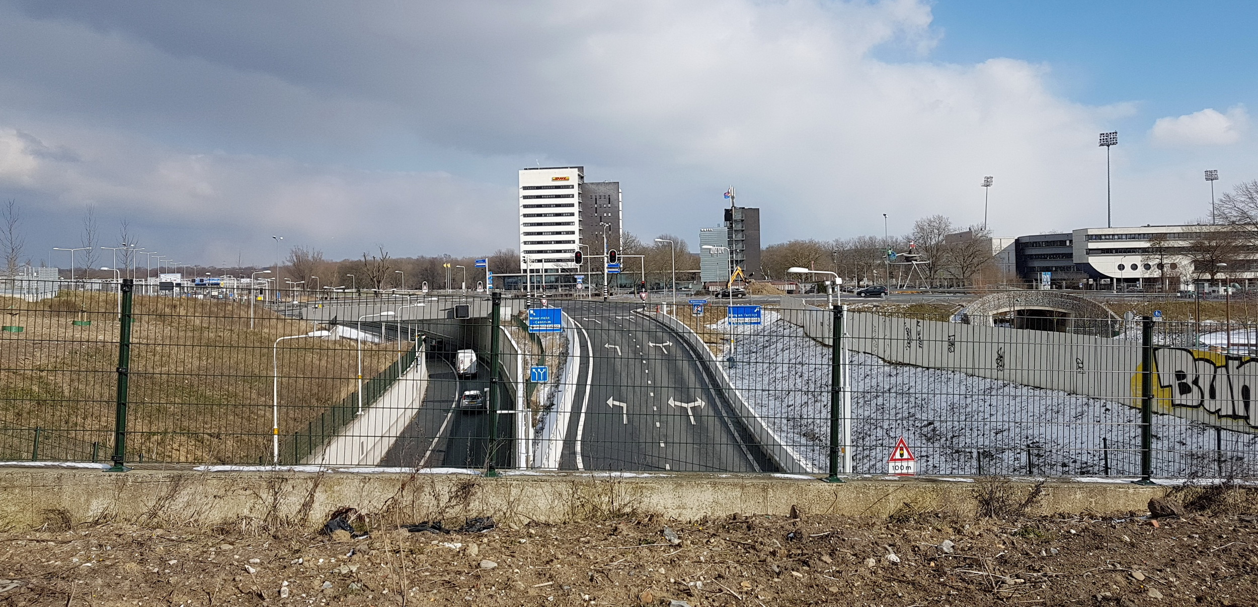 Snowy view of the A2 motorway in Maastricht, the Netherlands. The photo is taken from an artificial hill (Geusseltheuvel) that marks the northern tunnel entrance of the Koning Willem-Alexandertunnel, where the A2 goes underground for about 2.3 km.